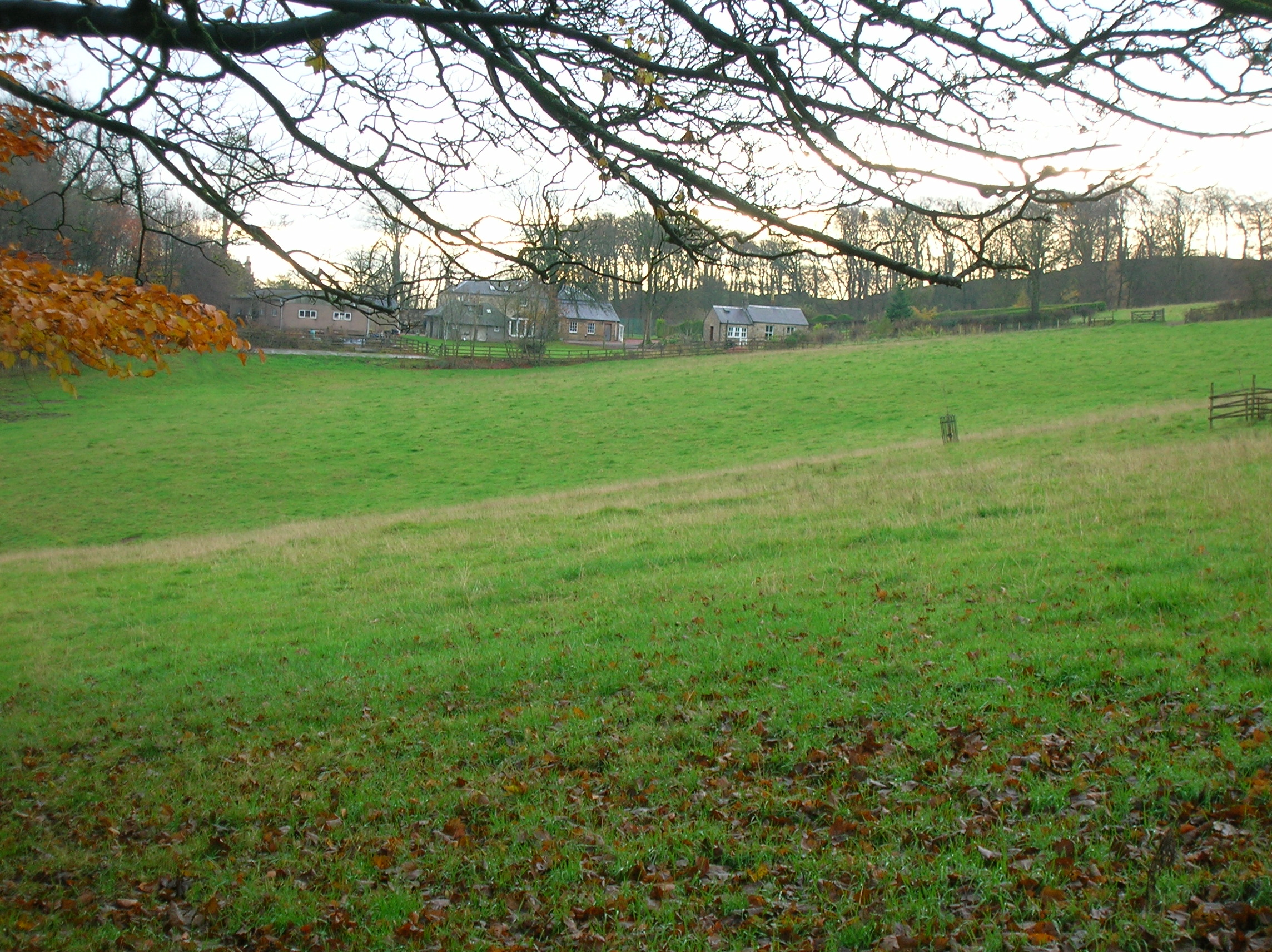 Monkcastle House from Old Monkcastle Glen, Dalry, Ayrshire, Scotland.